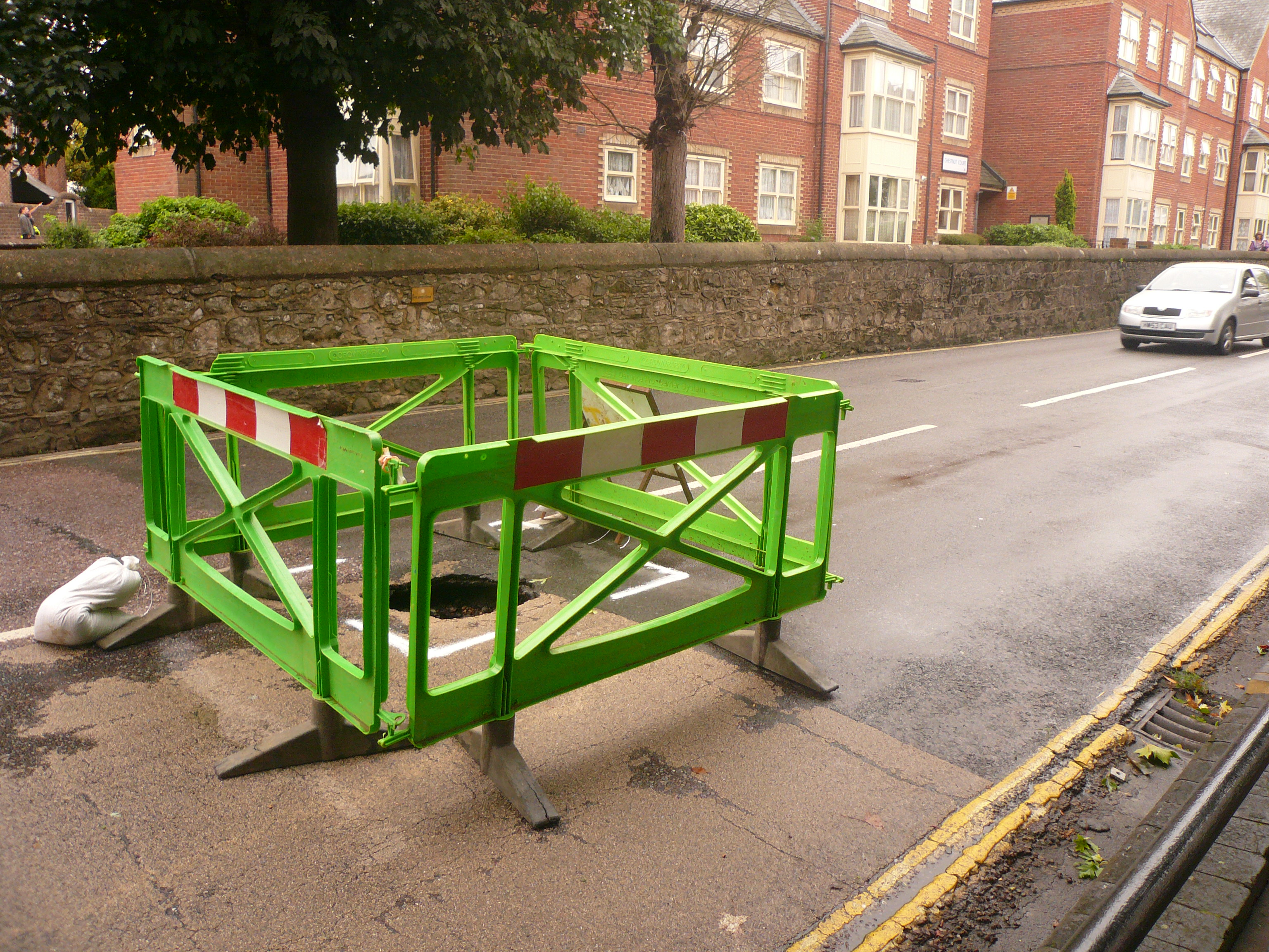 A massive pothole in Carisbrooke Road, Newport, Isle of Wight|Isle of Wight, so big it had to be sectioned off to prevent cars getting damaged by driving over it. Heavy rain the day before had caused some minor flooding to some parts of the island resulting in damaged road surfaces in some places.